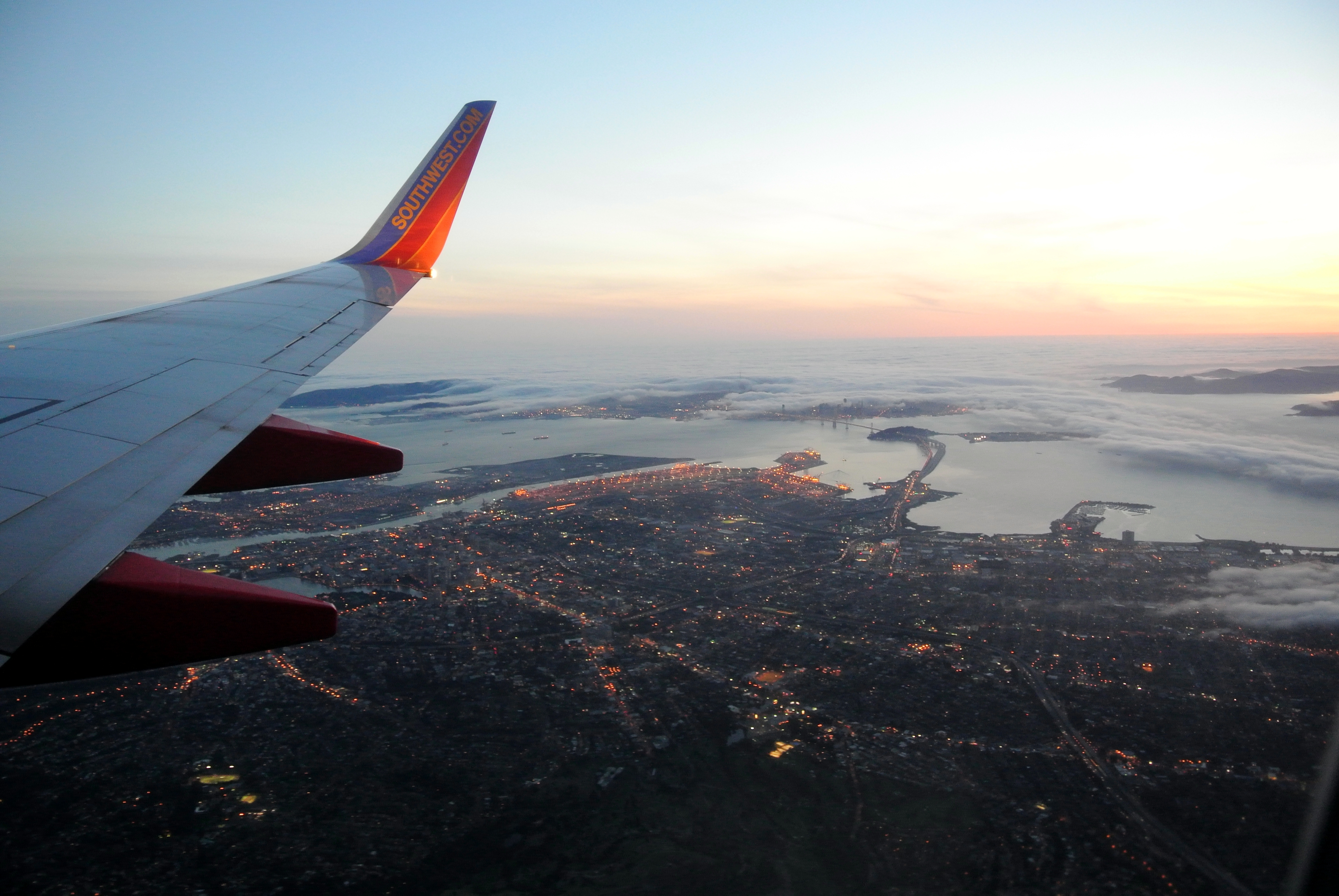 East Bay (South Berkeley, Emeryville, Oakland and Alameda), San Francisco–Oakland Bay Bridge and western part of San Francisco in the distance.